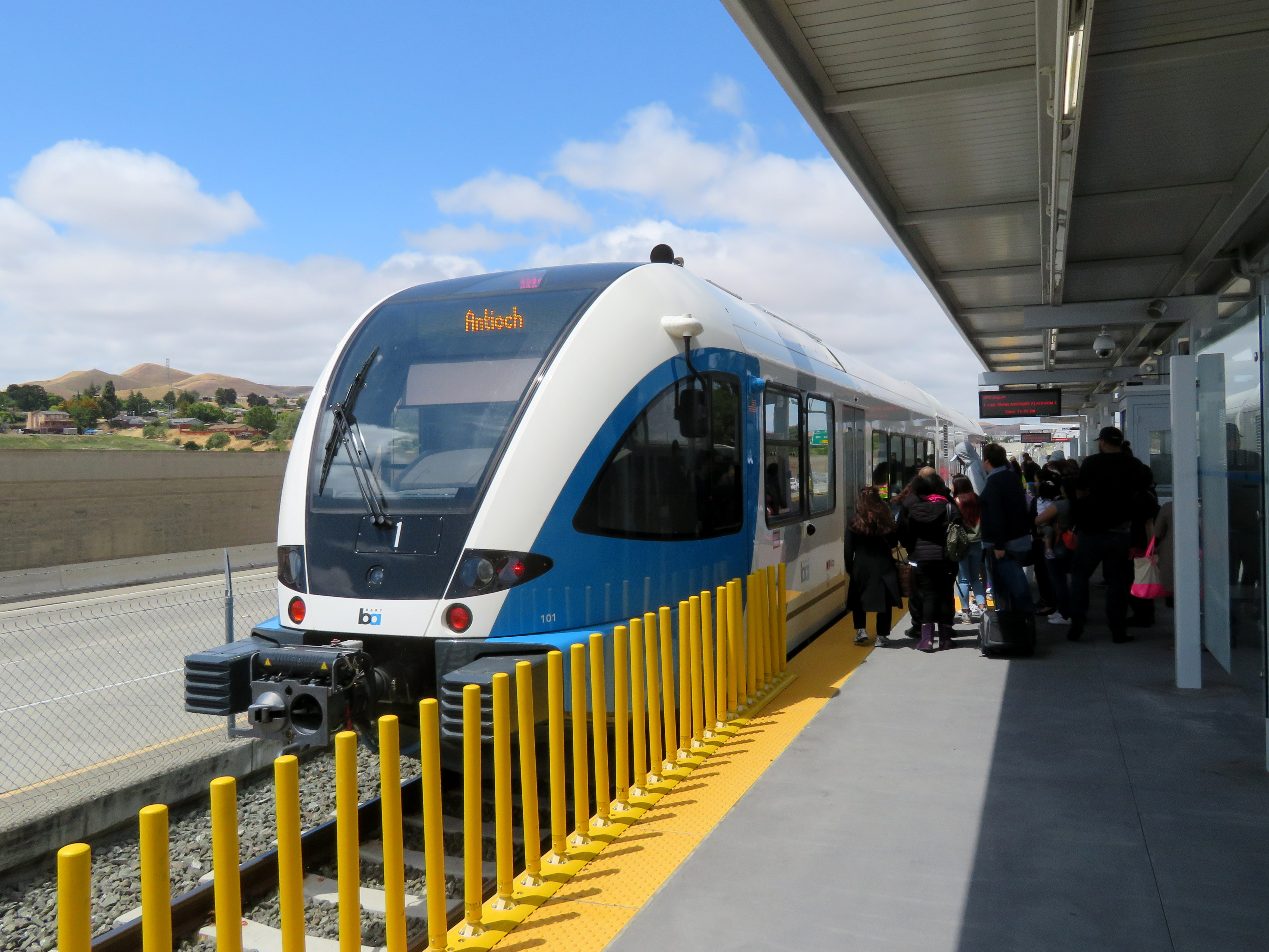 eBART train at the transfer platform on the first day of eBART service in May 2018